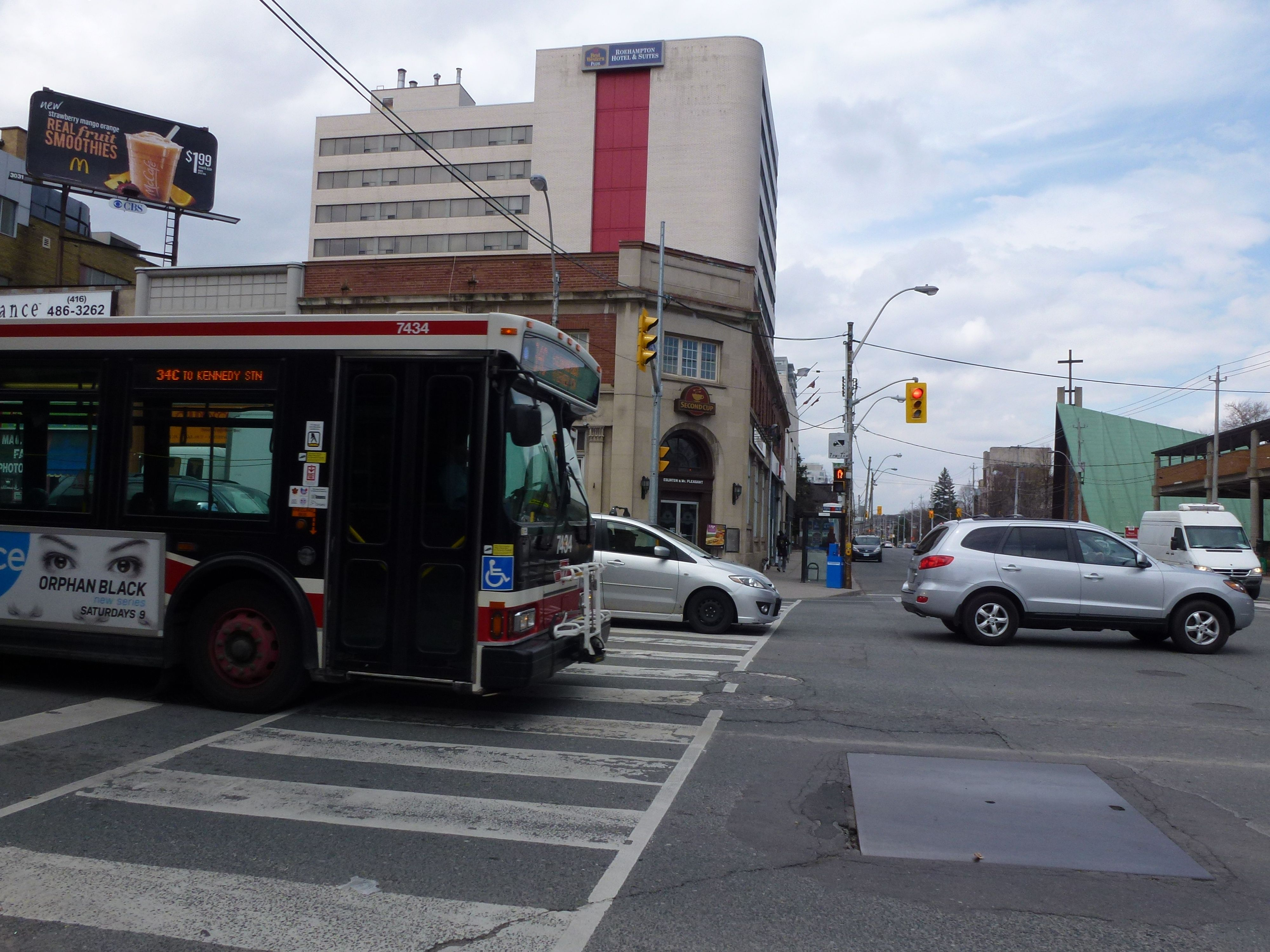 Eglinton Avenue and Mount Pleasant Road, NW corner, in Toronto. Coffee shop in the old bank building is the site of an Eglinton Crosstown LRT station. On April 9, 2013, the day the first tunnel boring machine started to bore the Eglinton Crosstown, I bought a TTC day pass and got off to take "before" pictures of the site of every future underground station between Mount Dennis and Yonge Street. On April 25 I took photos of most of the stations east of Yonge. I plan to return for "after" pictures when the Crosstown opens in 2020. This photo was taken near the future site of the Mount Pleasant Road LRT Station. Original caption: “Parts of panoramas of intersections where there will be Eglinton Crosstown LRT stations, GPS embedded, taken 2013 04 25”